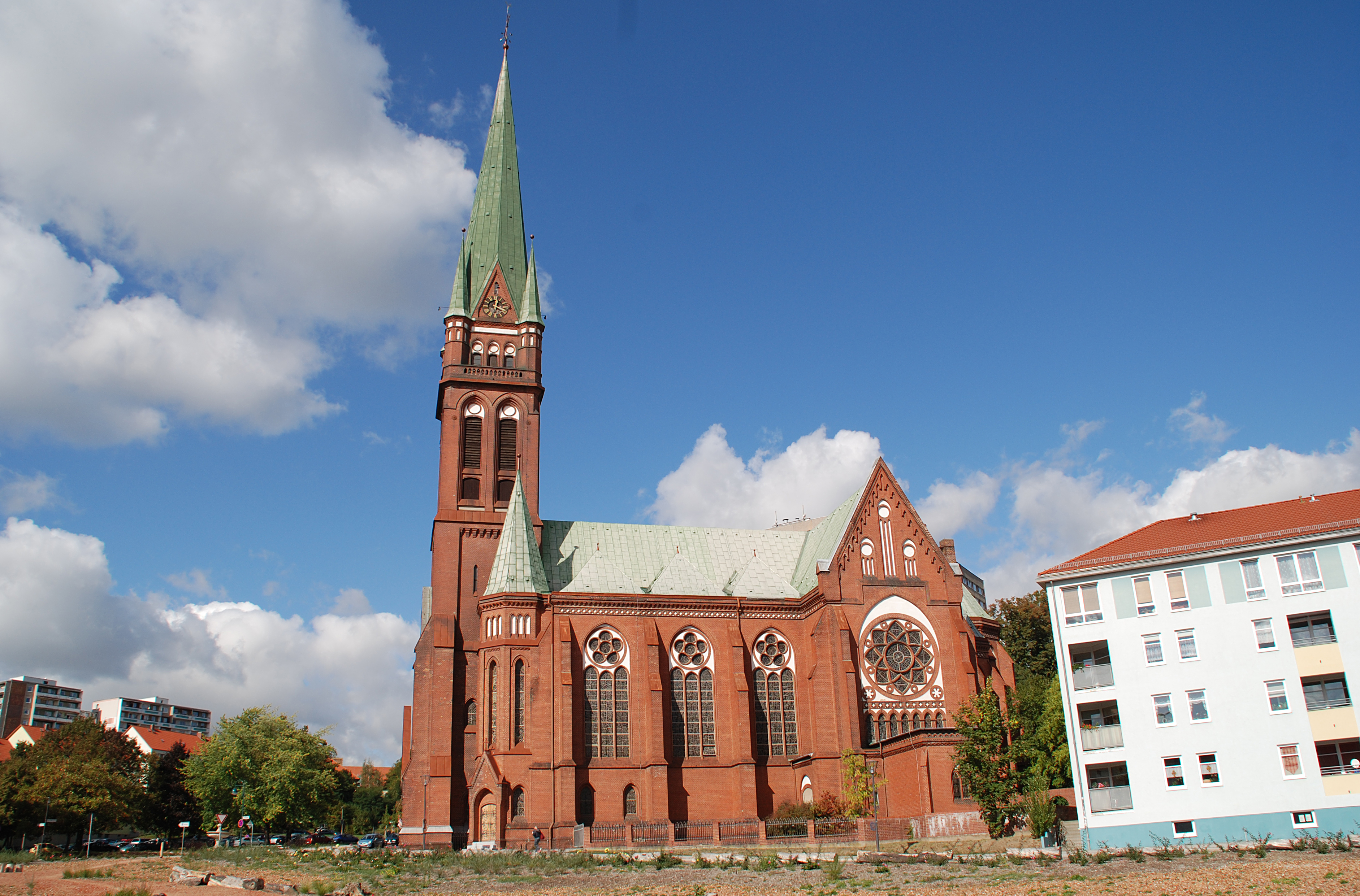 Roman Catholic Holy Cross Parish Church (Pfarrkirche Heilig Kreuz) in Frankfurt (Oder), Brandenburg, Germany.